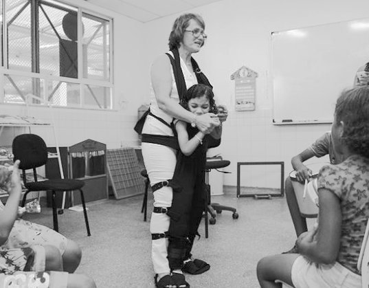 Loide Aragão presents the special overalls.